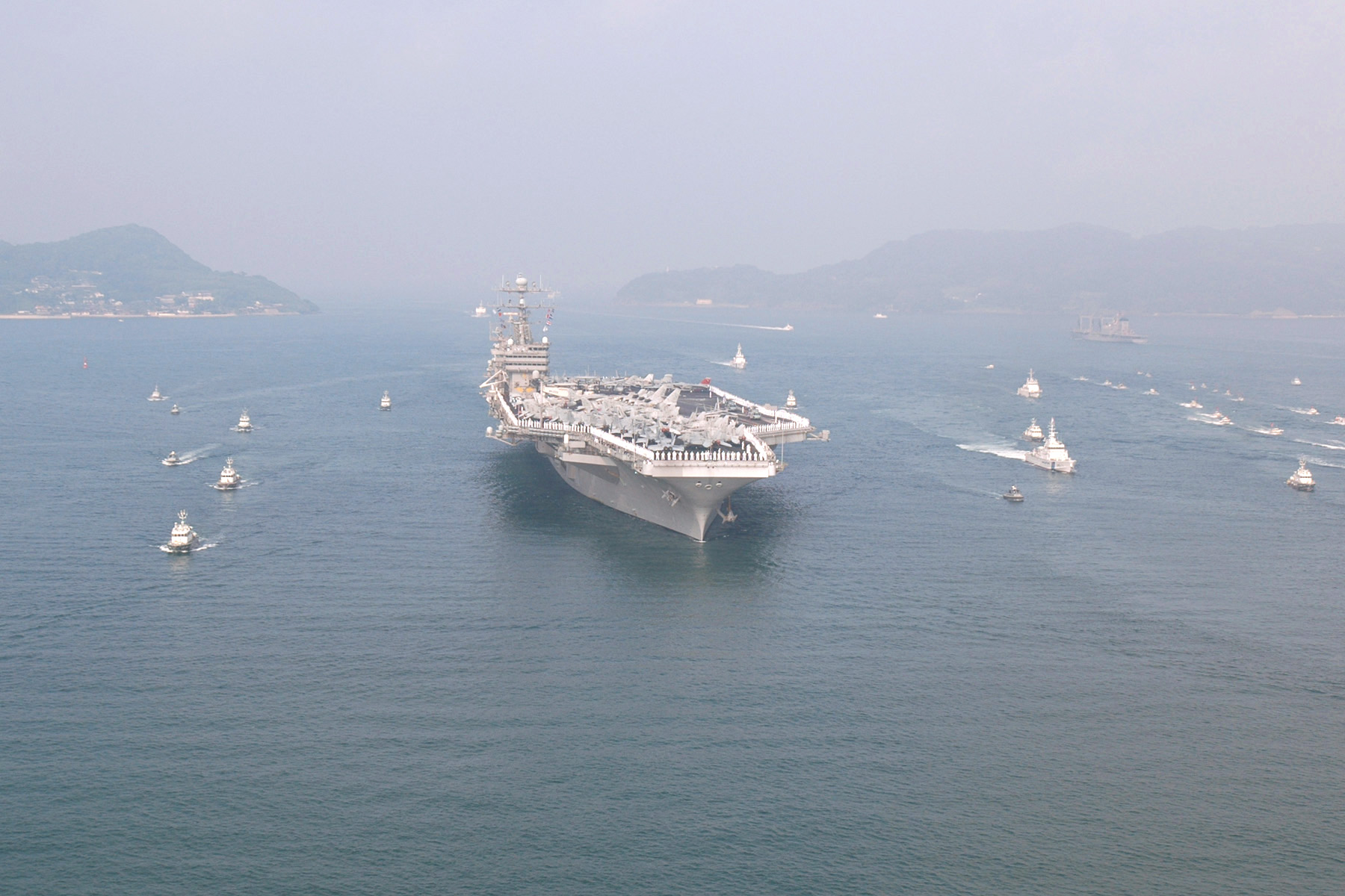 Sasebo, Japan (Aug. 21, 2004) – Nimitz-class aircraft carrier USS John C. Stennis (CVN 74) with Carrier Air Wing Fourteen (CVW-14) pulled into Sasebo, Japan, for a scheduled port visit during their Western Pacific deployment. Naval Station Sasebo and Commander, Seventh Fleet, Vice Adm. Jonathan W. Greenert hosted Stennis and CVW-14 to utilize the local facilities while anchored in Sasebo Harbor. U.S. Navy photo by Photographer’s Mate Airman Stephen R. Neel (RELEASED)